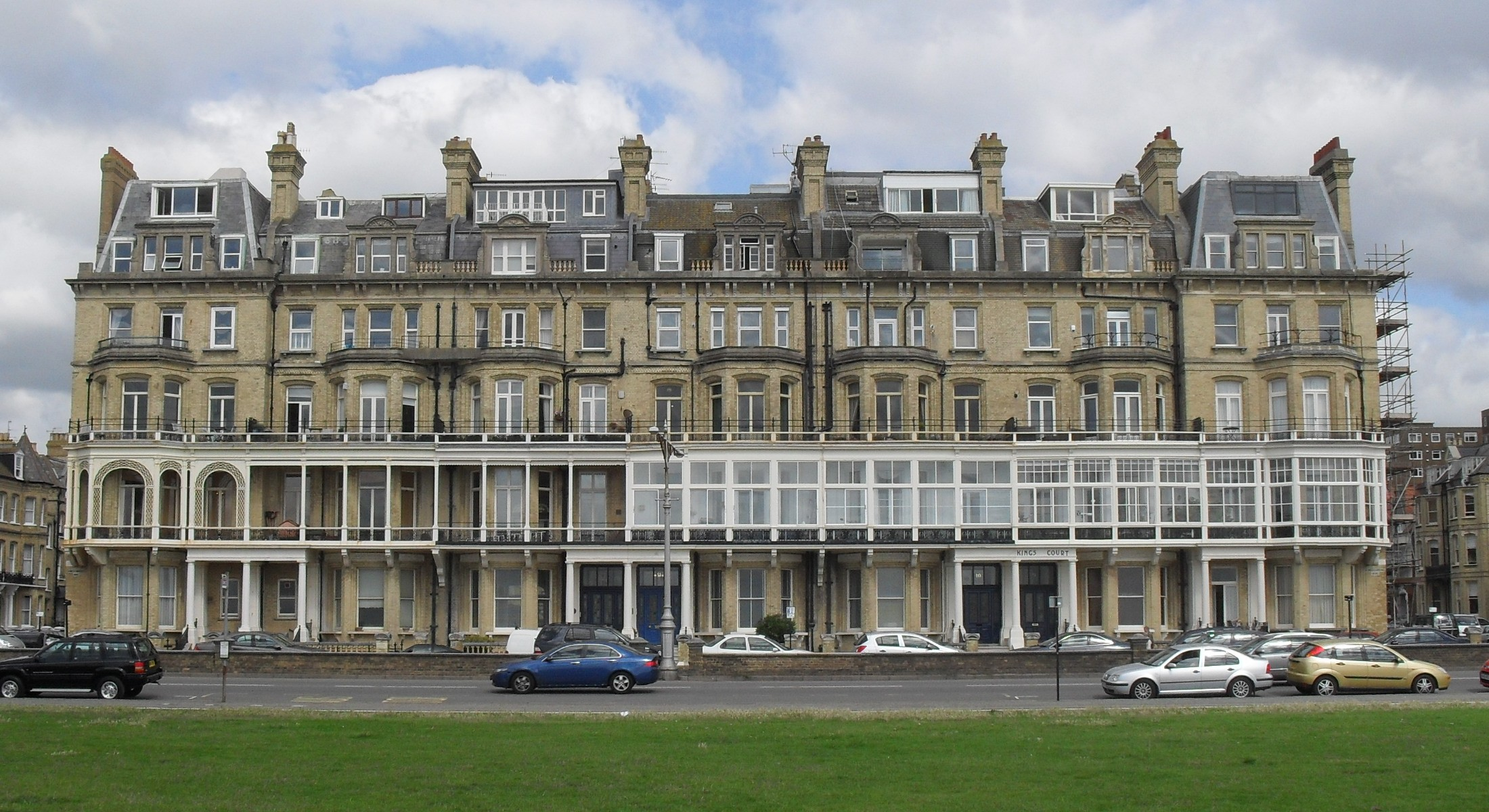 8–14 King's Gardens, Hove, City of Brighton and Hove, England. Built in 1889–90 by J.T. Chappell. Listed at Grade II by English Heritage (NHLE Code 1187568)